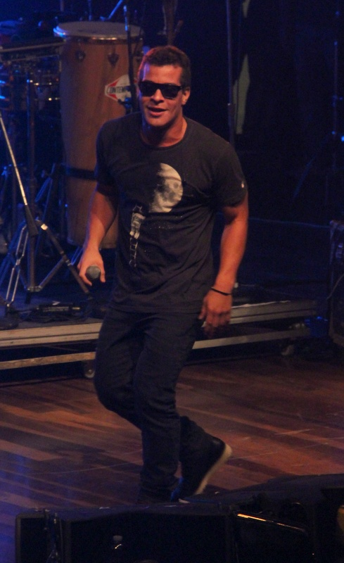 9 - Thiago Martins-008